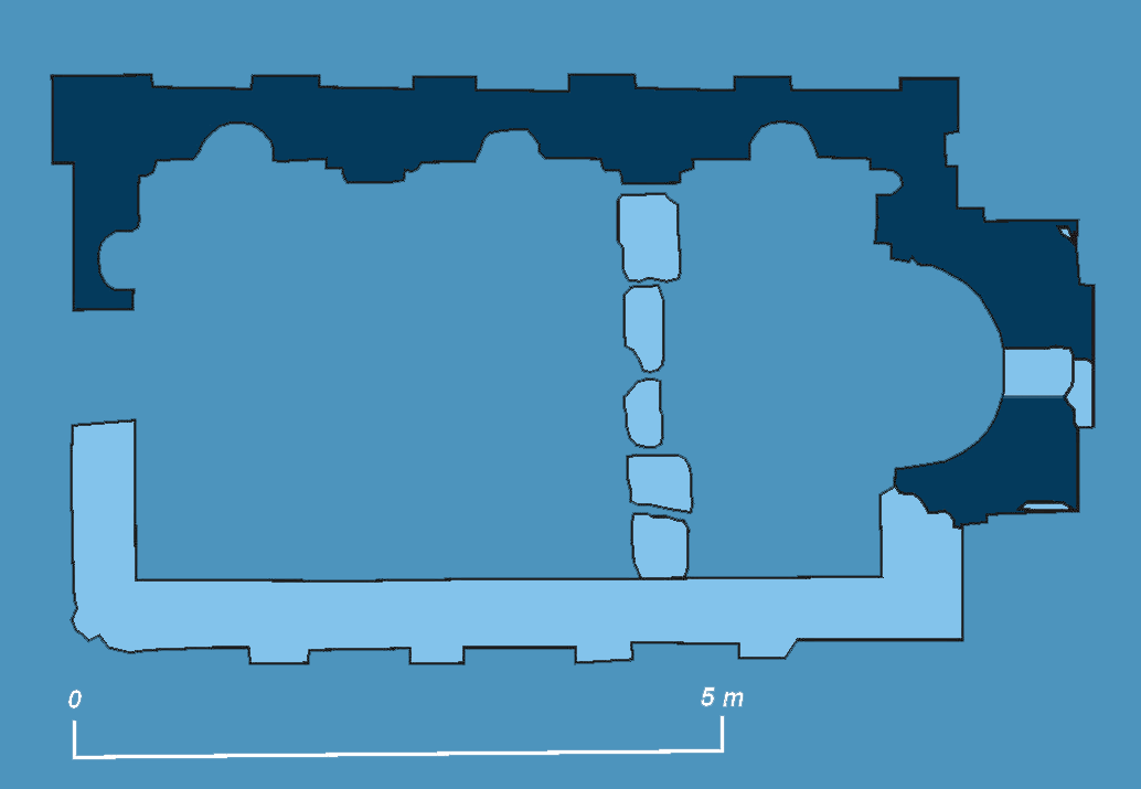 St. Toma (Kuti, near H. Novi).